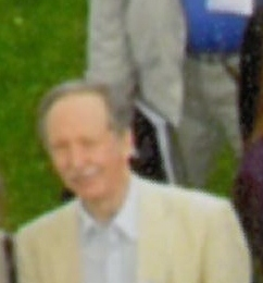 Thomas Charles-Edwards (Oxford University) XIV International Congress of Celtic Studies Maynooth 2011